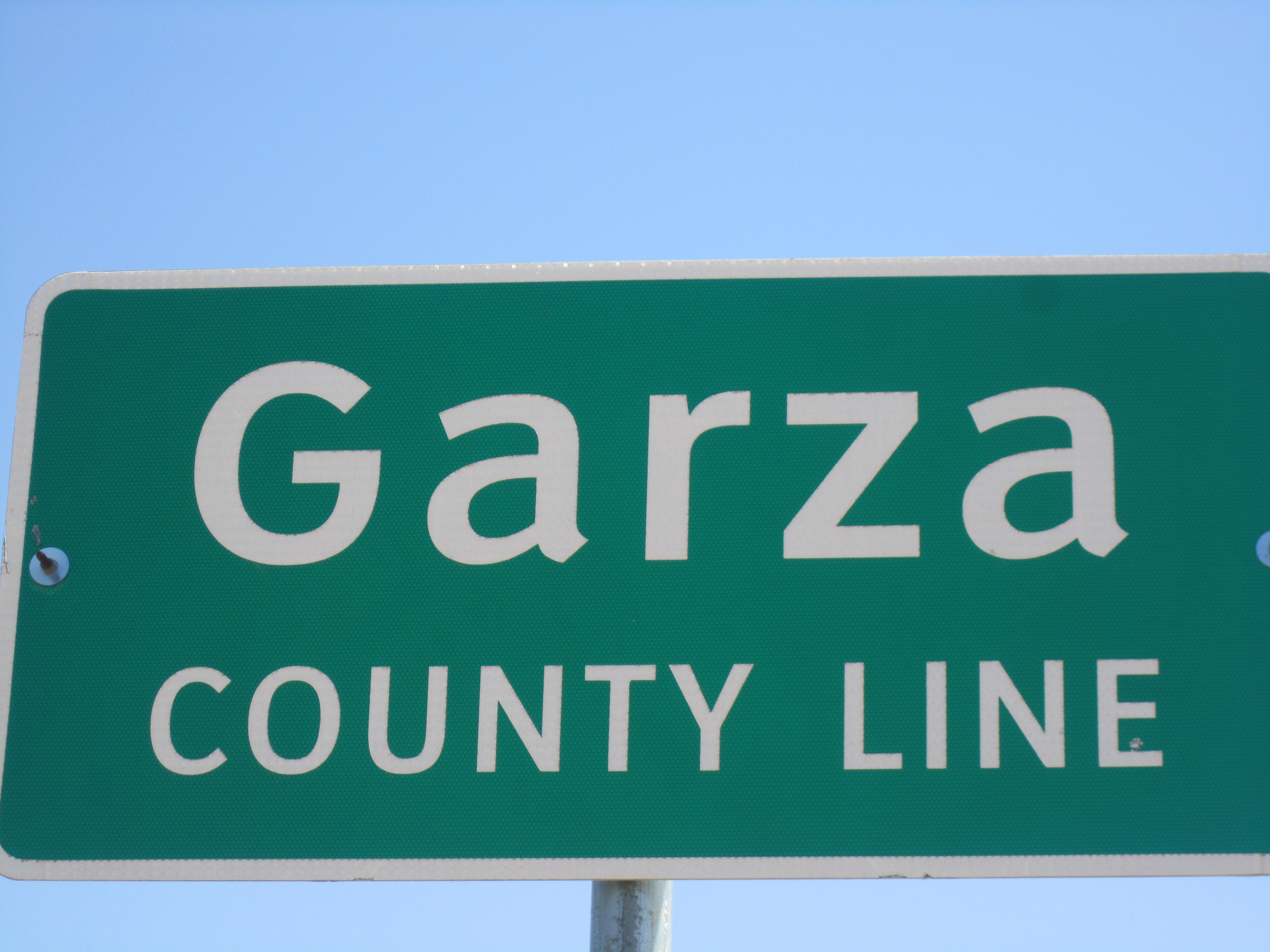 I took photo off U.S. Hwy. 84 in Garza County, TX, with a Canon camera.